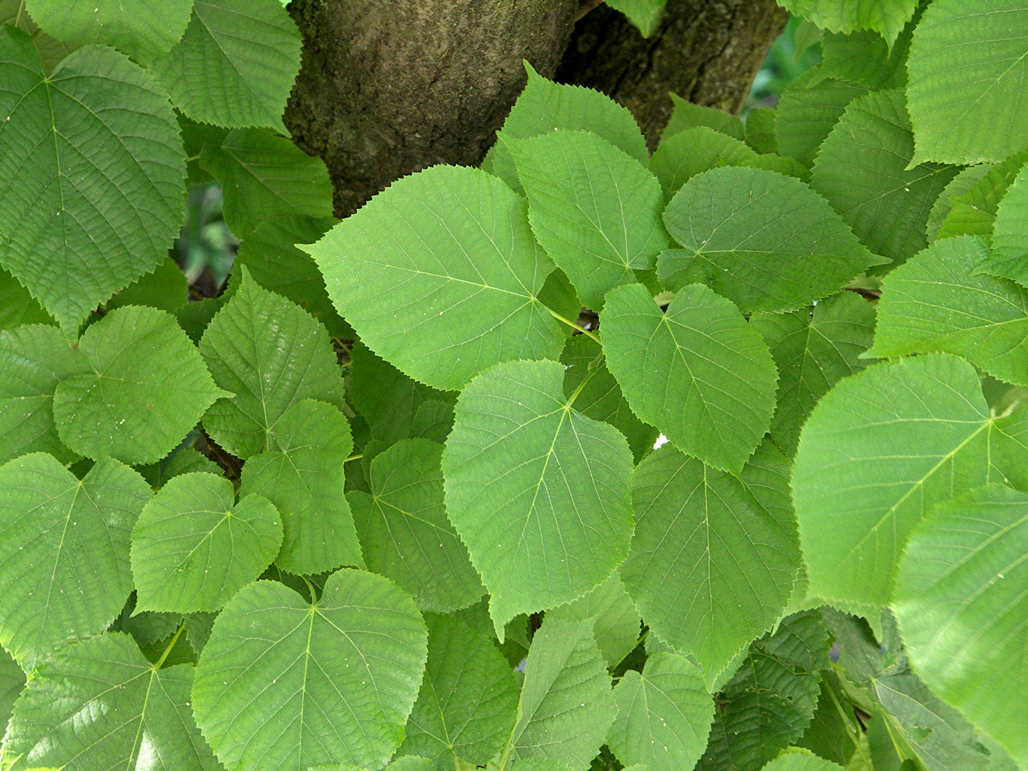 Leaves of a commom lime (Tilia × europaea)